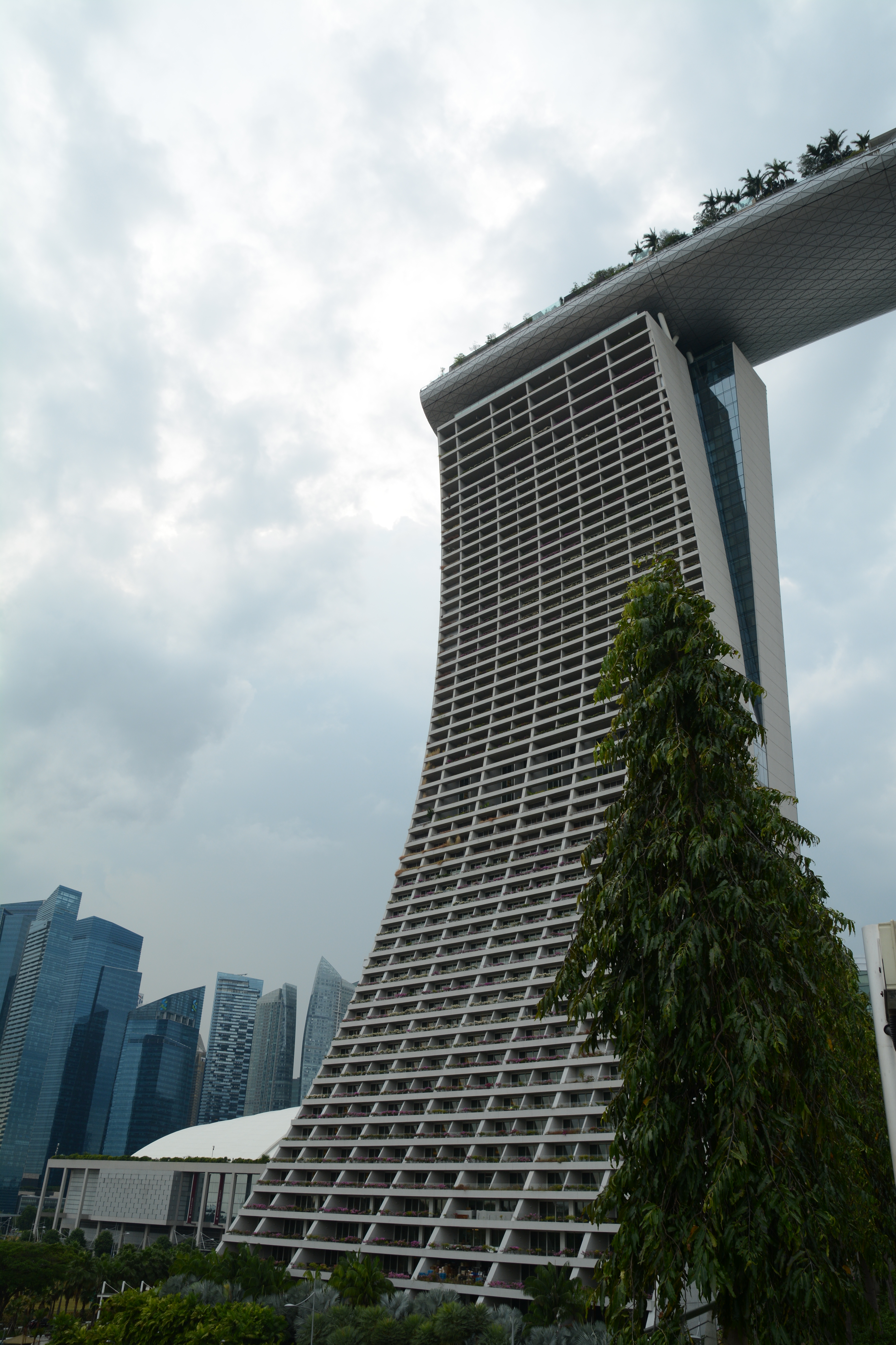 Marina Bay Sands Hotel, Singapore.